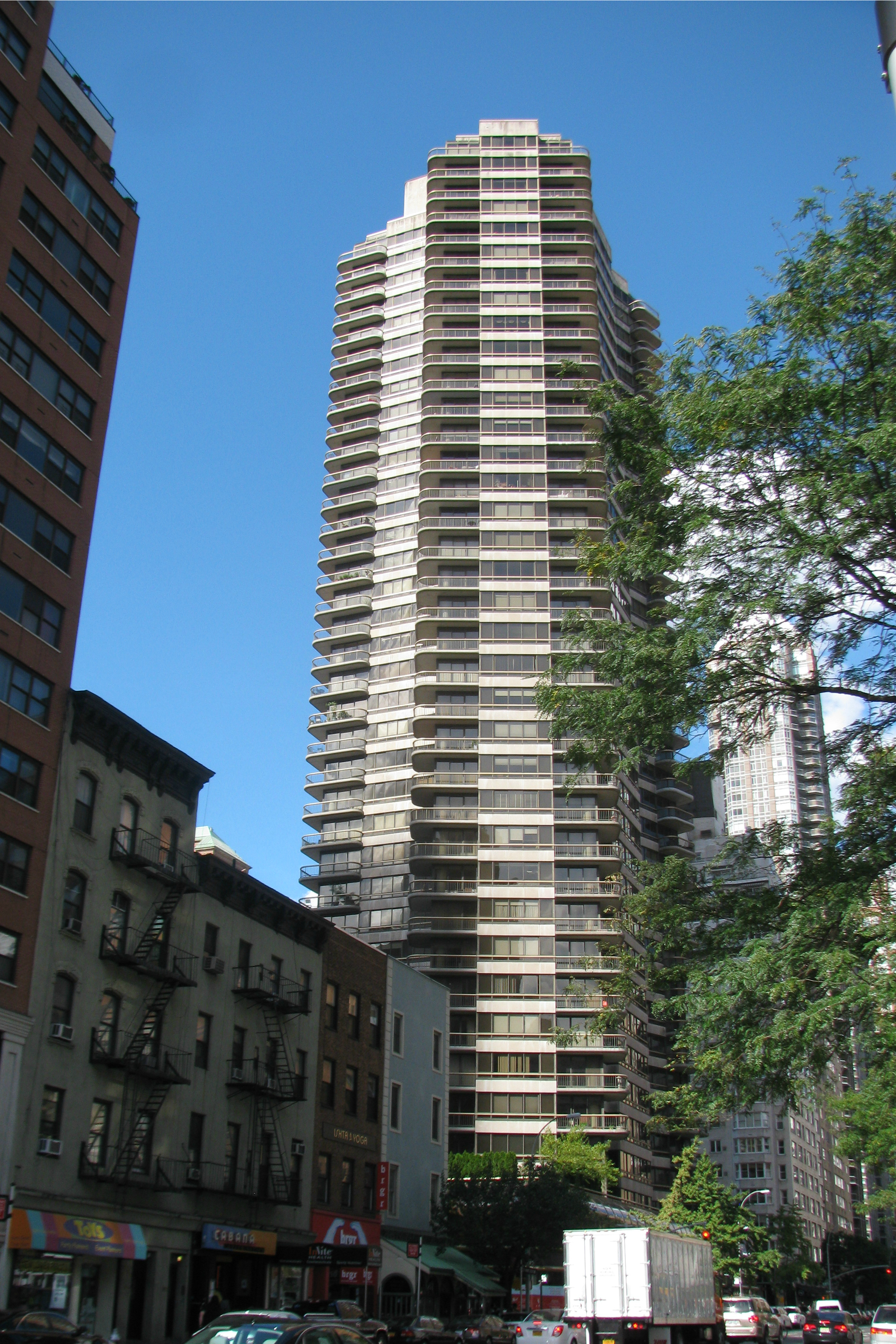 Trump Plaza apartment tower in New York City.